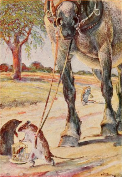 Wind in the Willows